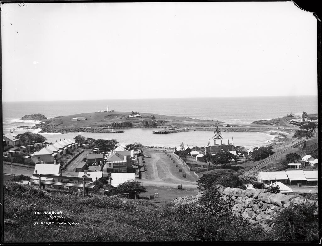 Format: Glass plate negative. Repository: Tyrrell Photographic Collection, Powerhouse Museum Part Of: Powerhouse Museum Collection General information about the Powerhouse Museum Collection is available at Persistent URL